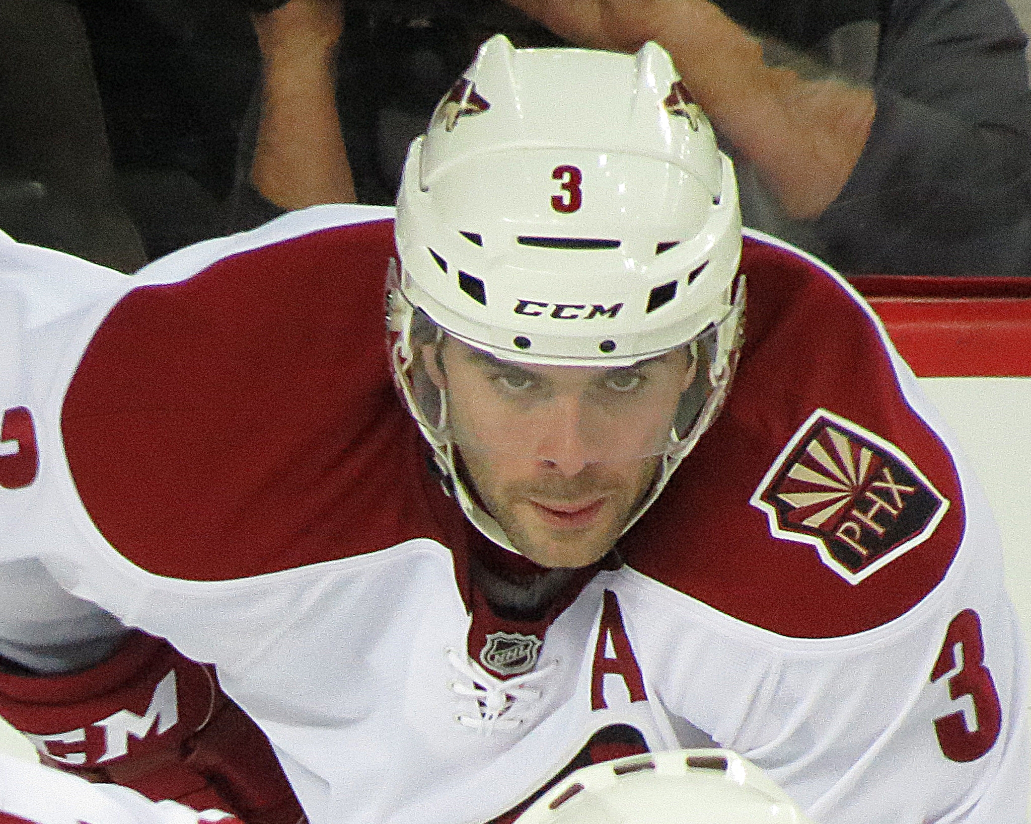 Keith Yandle with the Phoenix Coyotes during the 2013–14 season.